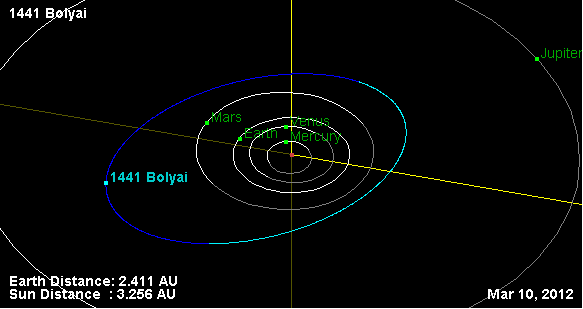 1441 Bolyai orbit, and his position on 10 Mar 2012 (NASA Orbit Viewer)